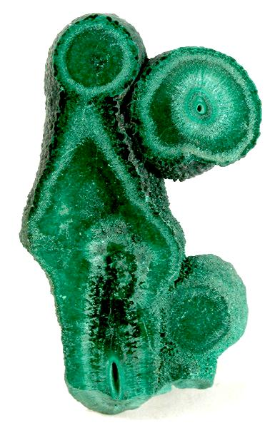 Malachite Locality: Kolwezi, Western area, Katanga Copper Crescent, Katanga (Shaba), Democratic Republic of Congo (Zaïre) (Locality at ) Size: 8.7 x 5.4 x 2.7 cm. A fine and aesthetic specimen of a slabbed and polished cluster of malachite stalactites from one of the numerous copper mines near Kolwezi. The three malachite stalactite knobs with "eyes" of radial malachite growth make this a striking, sculptural specimen.